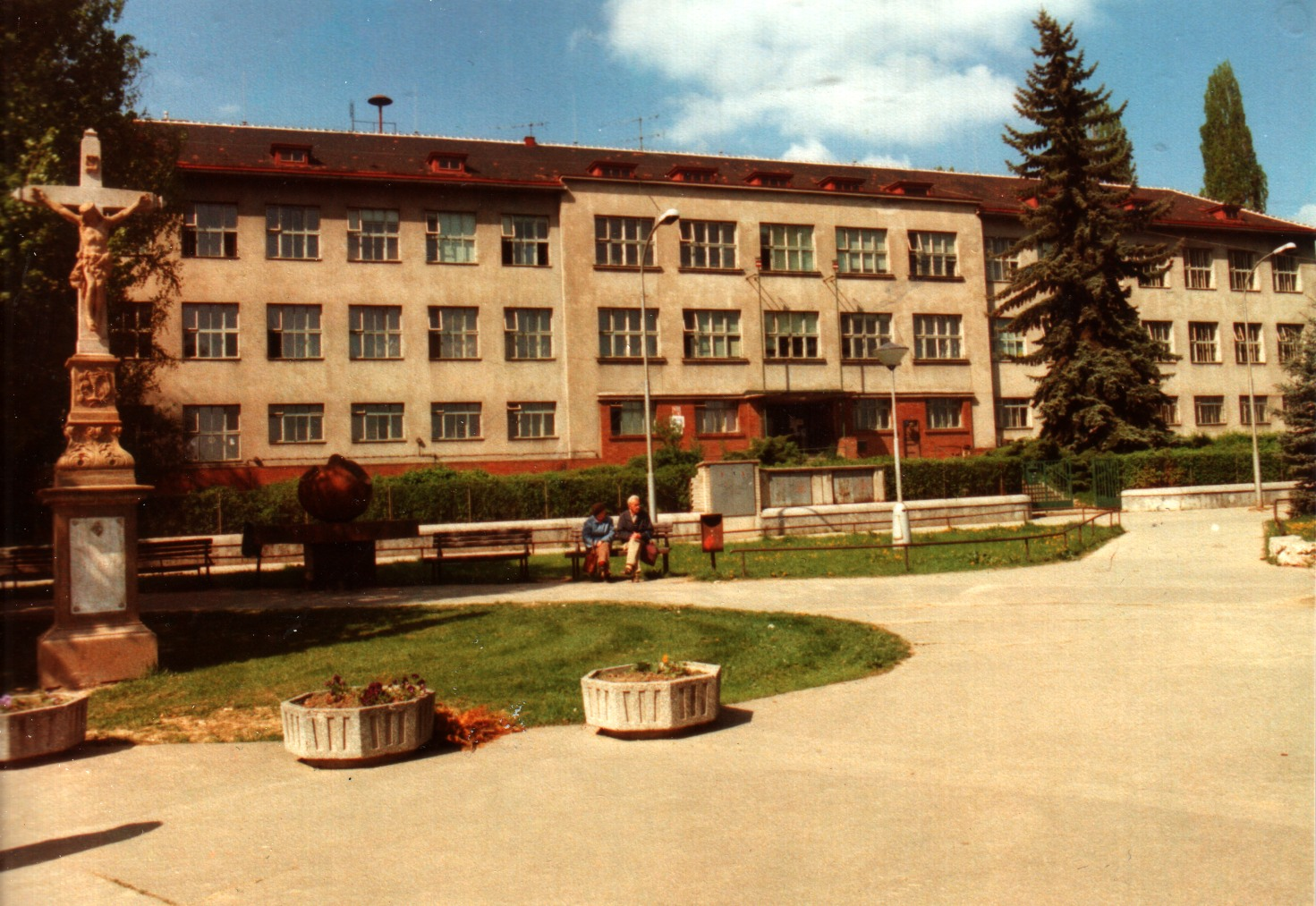 Gymnázium Brno-Řečkovice, old photography, school